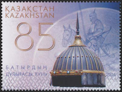 Stamp of Kazakhstan